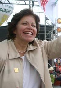 Derivative work from Image:Lourdes flores mitin.jpg. The author released it into the public domain.